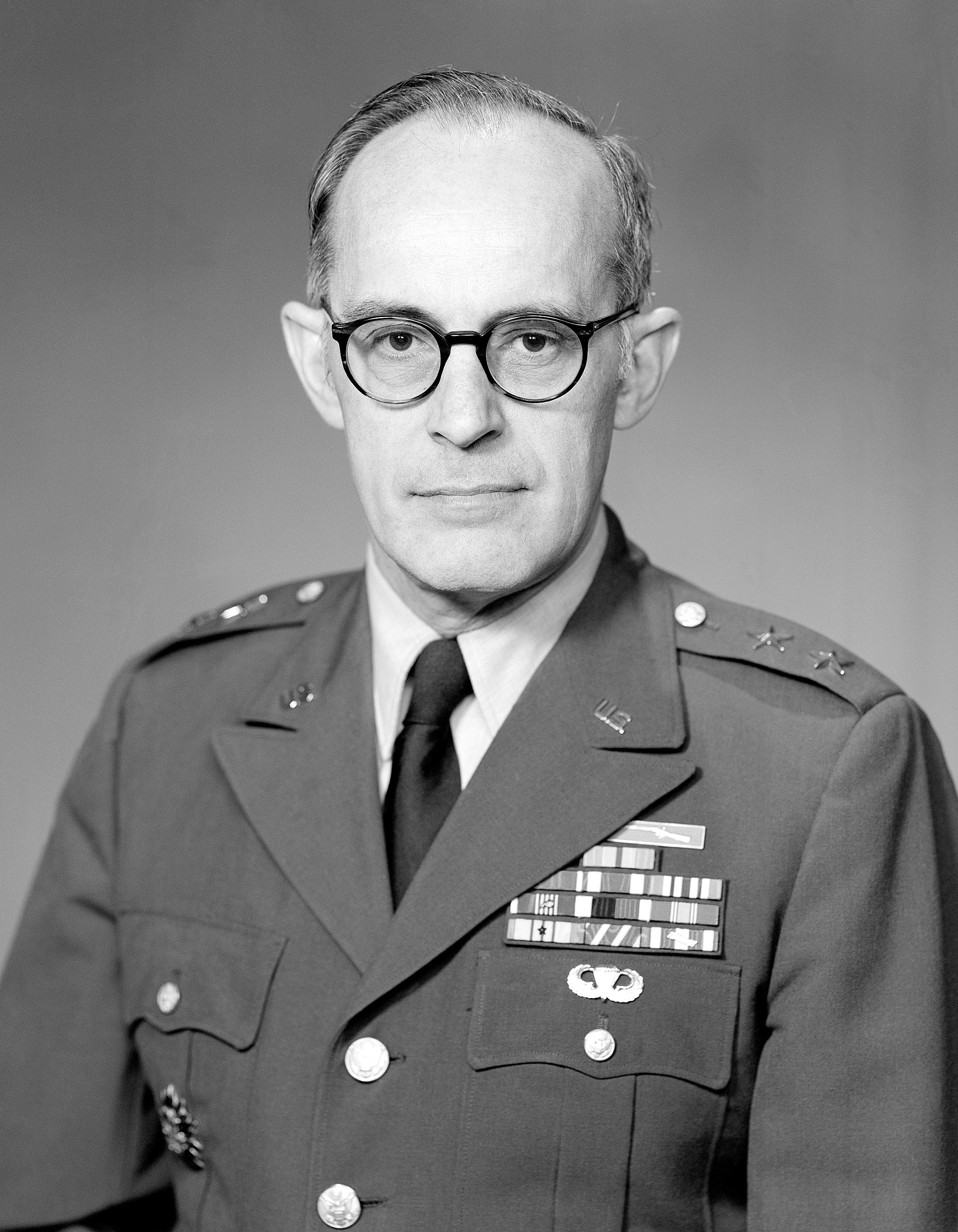 Major General William Odom, director of the NSA from 1985 to 1988.